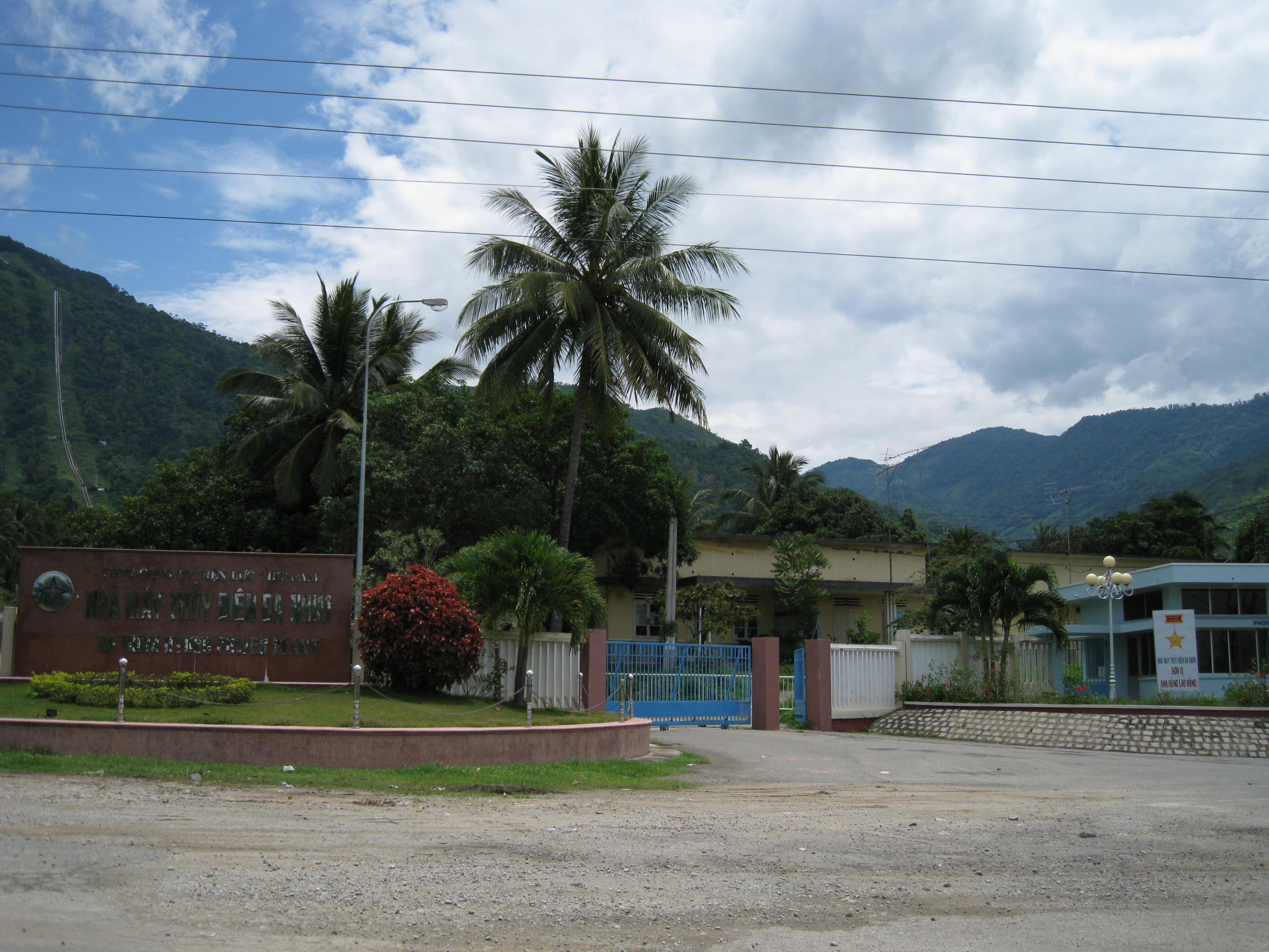 Đa Nhim hydro-power plant.